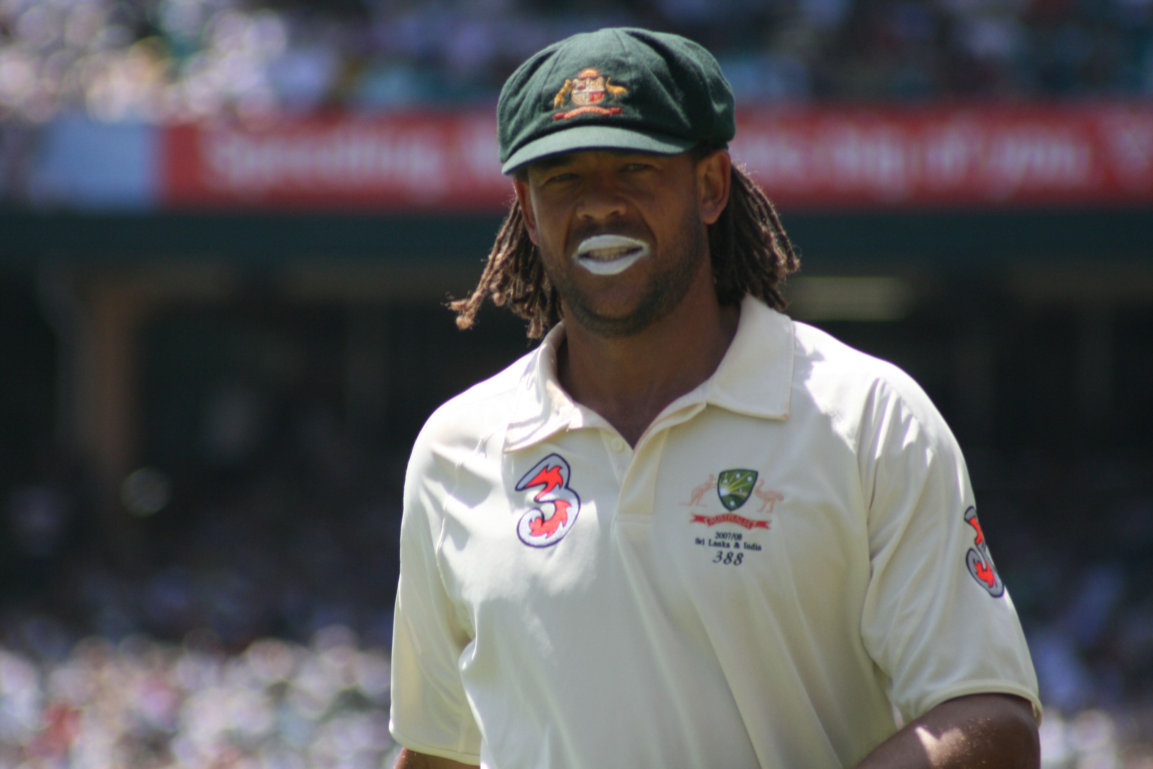 Andrew Symonds